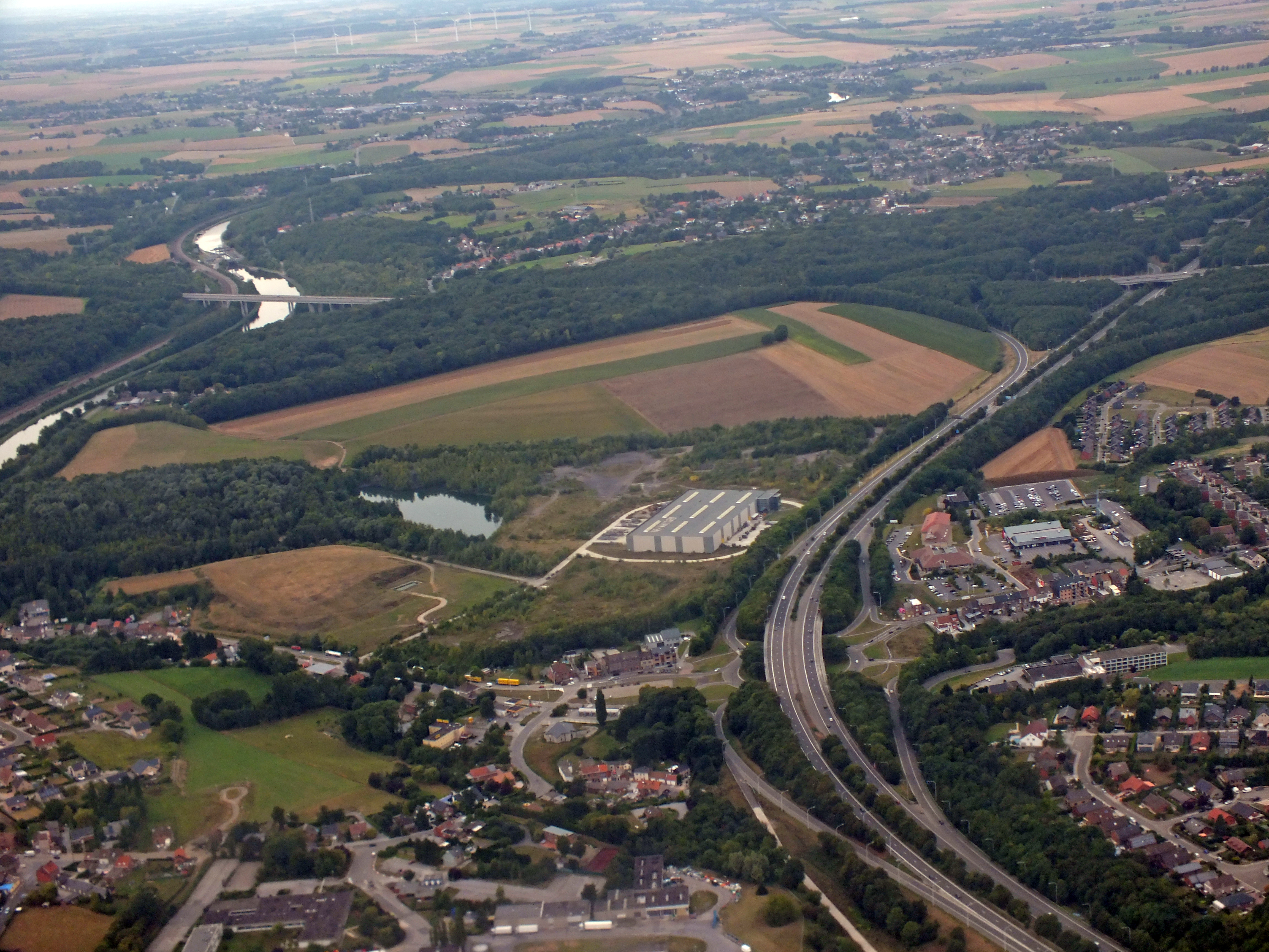 I'm an interchange-freak, obviously. This one north of Charleroi looks to be made neatly with a lot of loving care. It’s nice to witness every time again the Belgian smart planning which takes the green as an obvious component and a critical tool for maximizing the quality of life of living communities, rhather than seeing it as the goal to itself – just like roads! – as brought out in this landscape, with many various provincial land-uses in a synergetic flow.